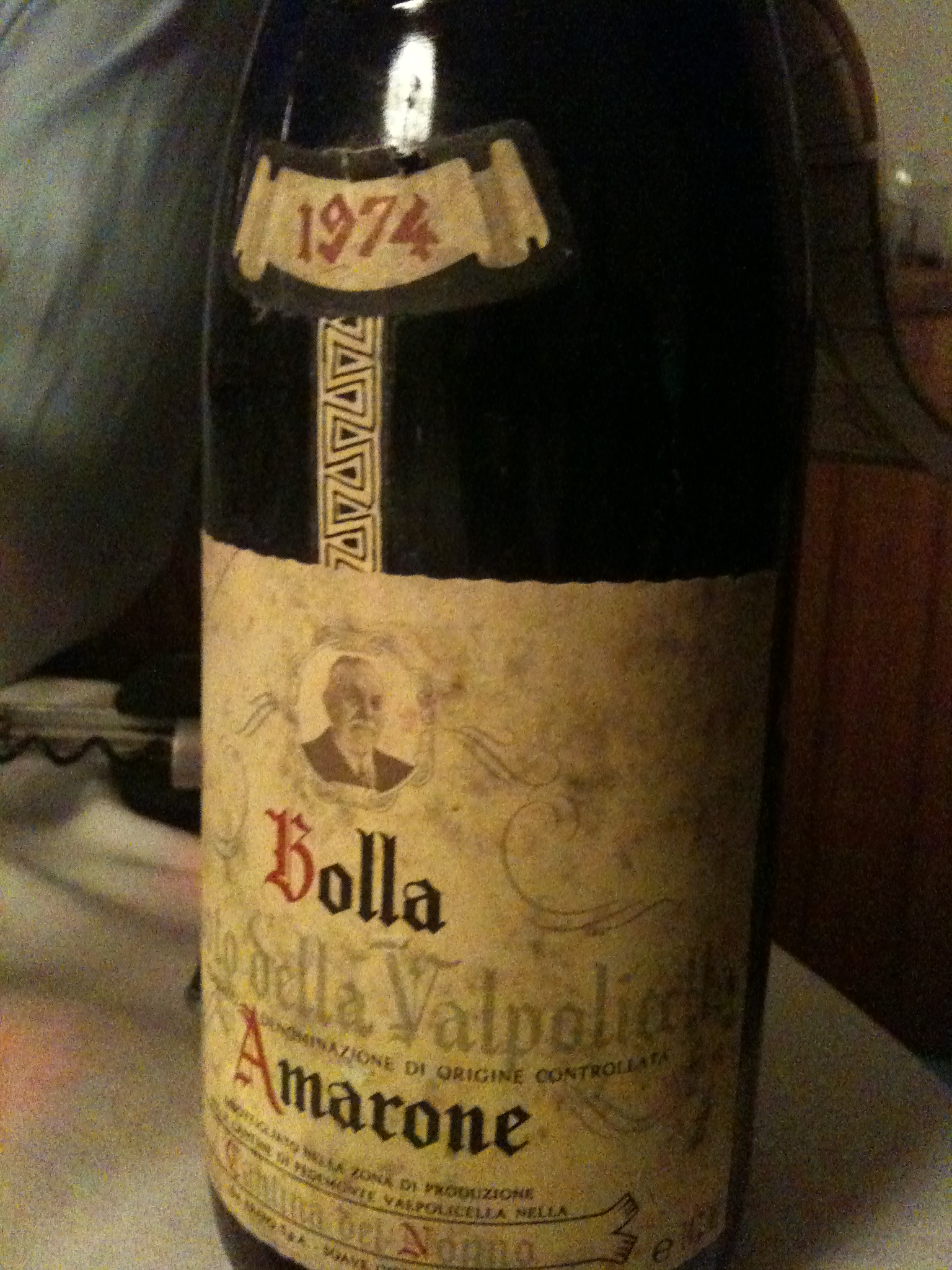 A bottle of the Italian wine Amarone della Valpolicella from the Veneto.